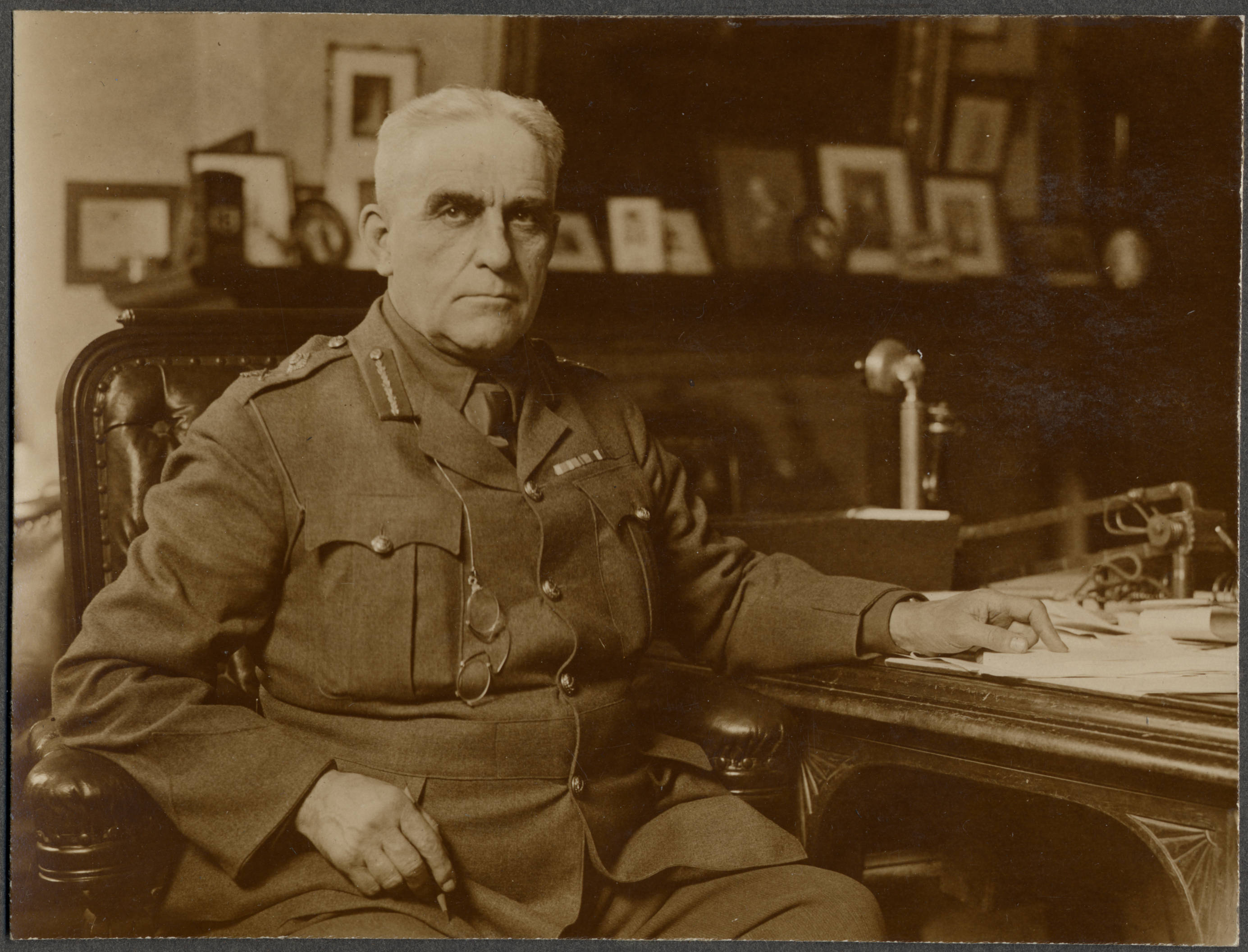 Item is a photograph taken by J. A. Millar from an album depicting scenes of the Canadian Expeditionary Force at Valcartier Camp, at Quebec, and at Gaspe Harbour immediately prior to sailing to Britain in 1914. Millar was a staff photographer of the Montreal Daily Star and produced the album in 1915.